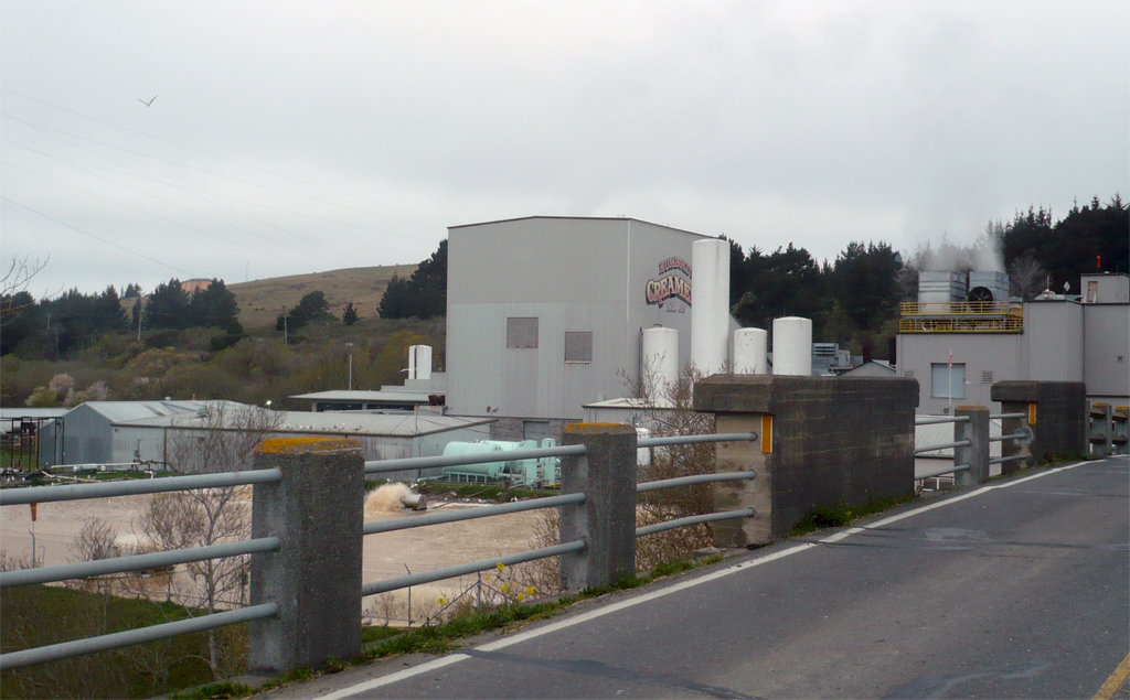 The Humboldt Creamery building in Fernbridge, California as seen from the historic Fernbridge.